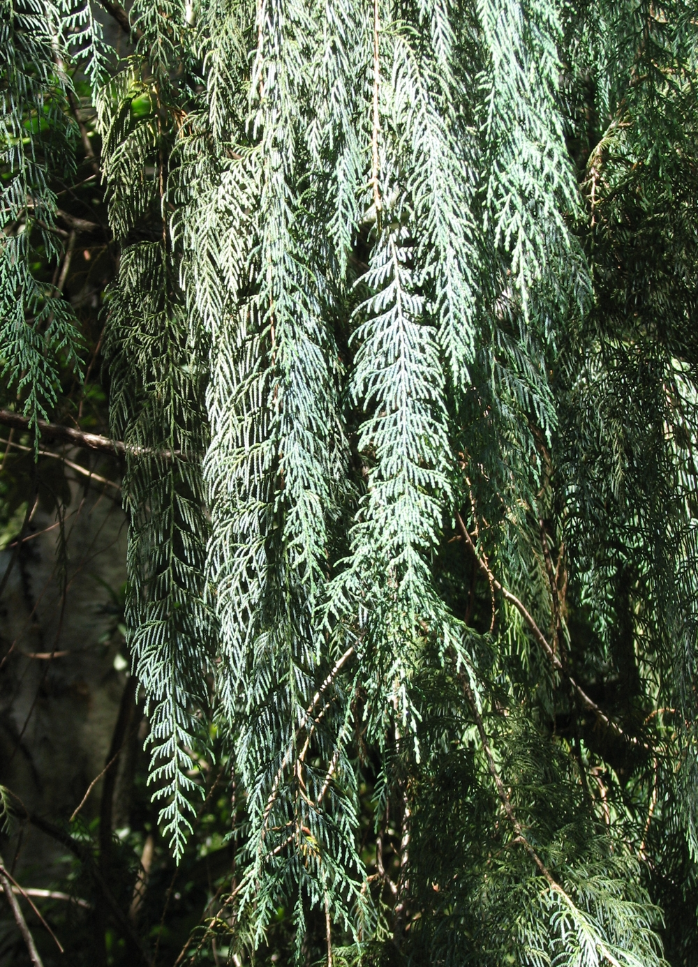 Foliage of Cupressus cashmeriana, Pirianda Garden, Olinda, Victoria, Australia.